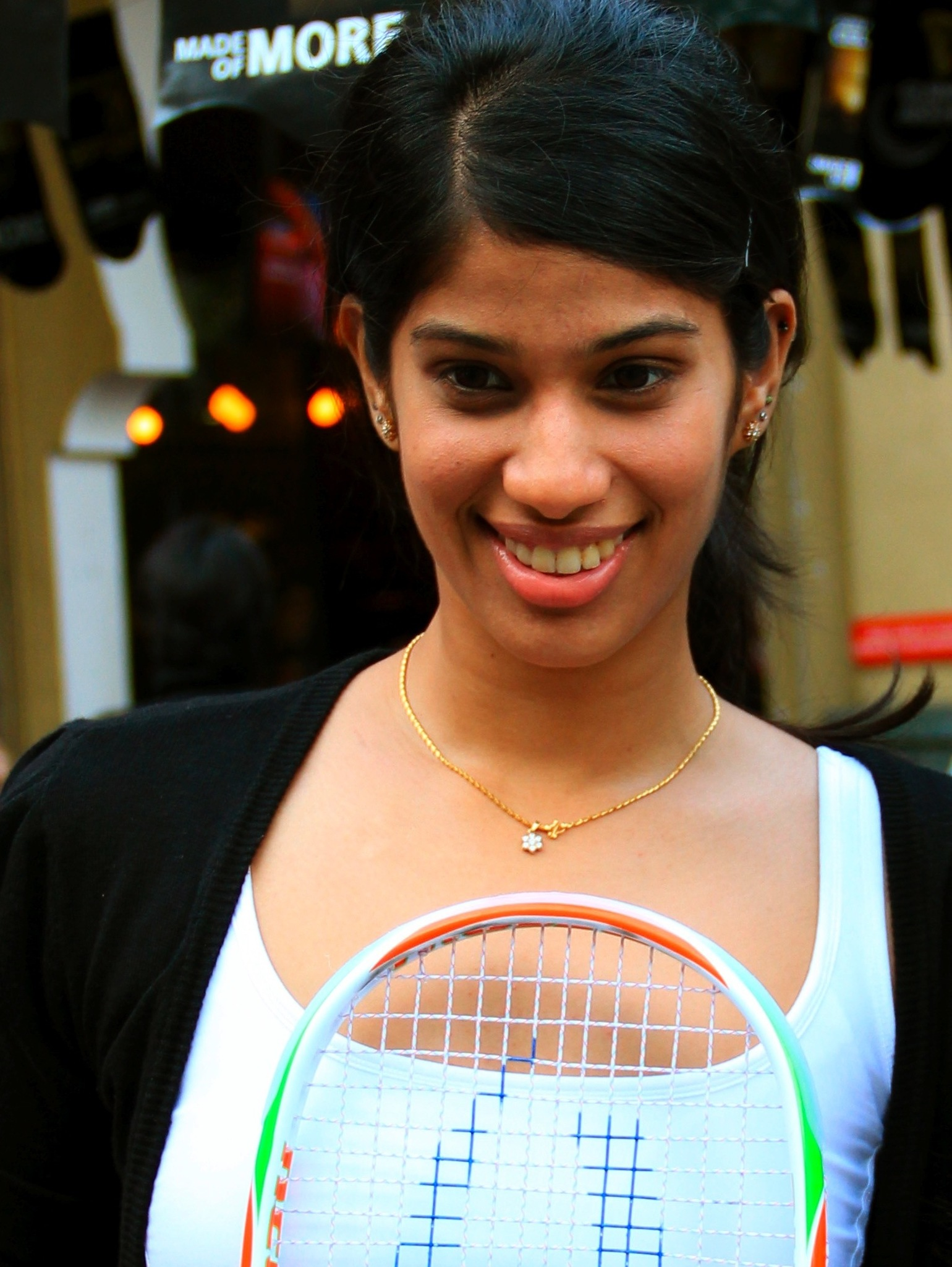 BacktheBid2020 Flashmob @ The Curve - 10th September 2012